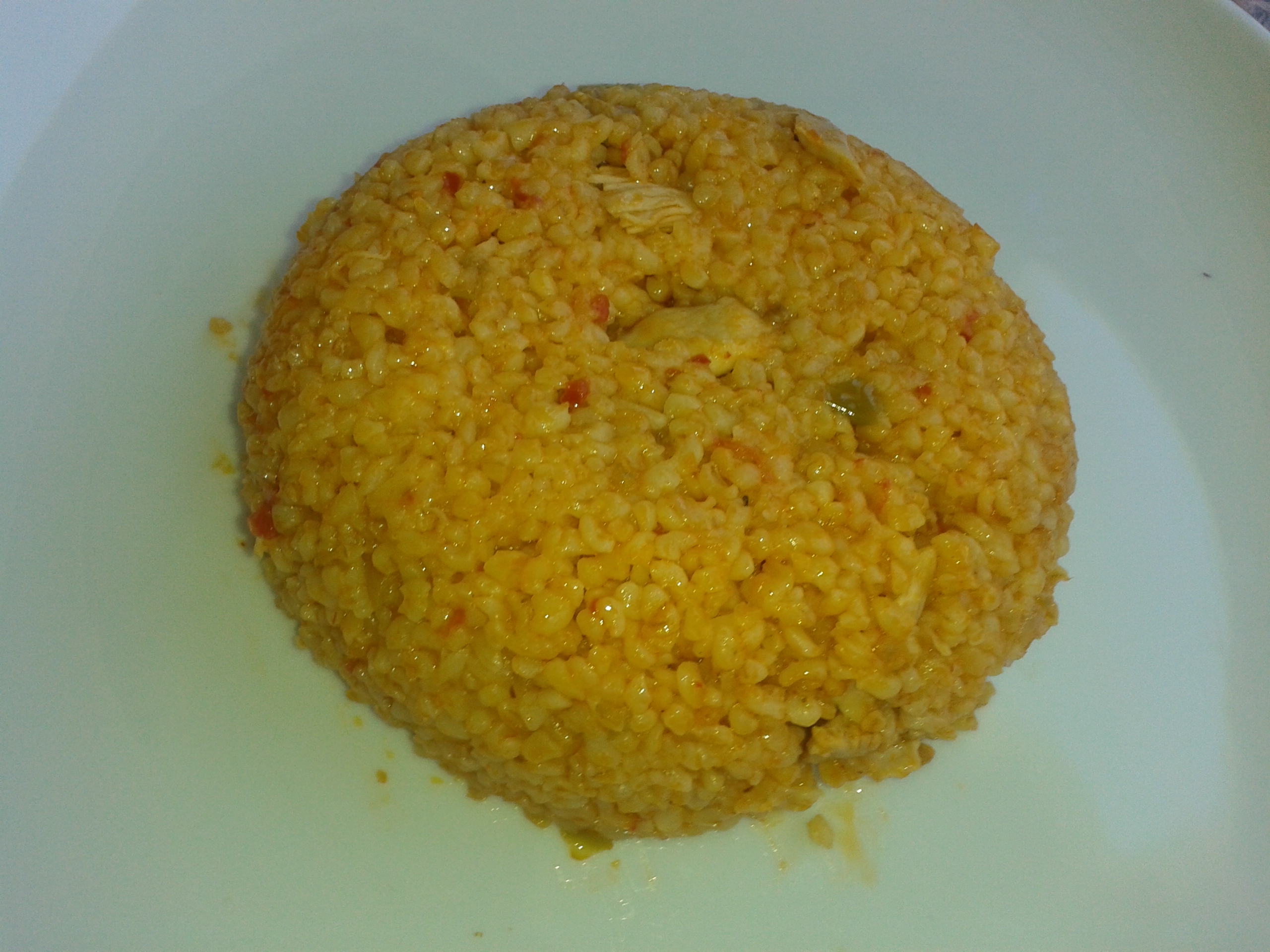 Tavuklu bulgur pilavı: A new response to the rising rice prices. Instead of "tavuklu pilav" (pilav with chicken meat), a Turkish cuisine classic, "tavuklu bulgur" (bulgur with chicken). At a restaurant in Ankara...